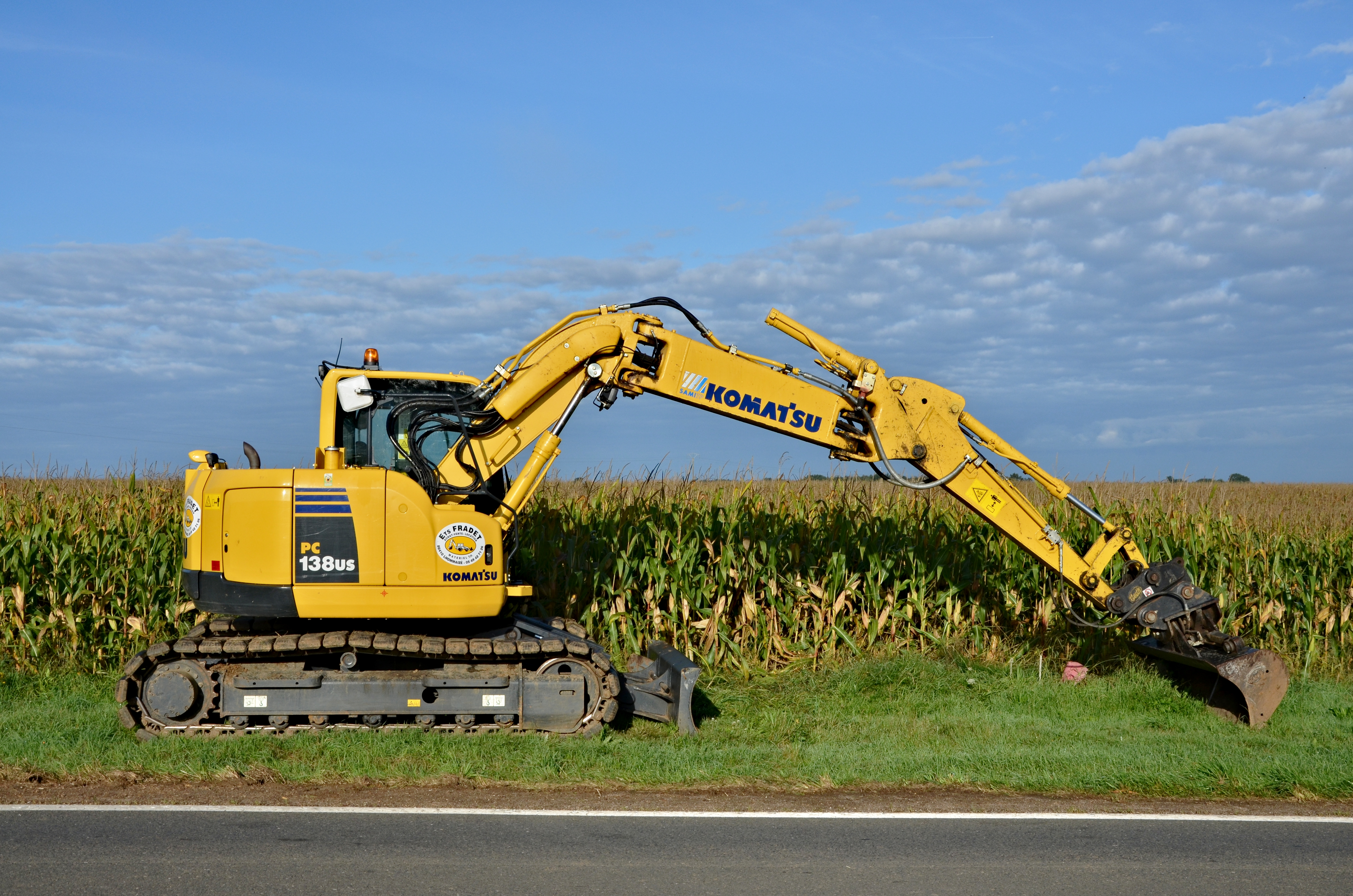 Komatsu PC138US excavator, Leigné, Vienne, France.